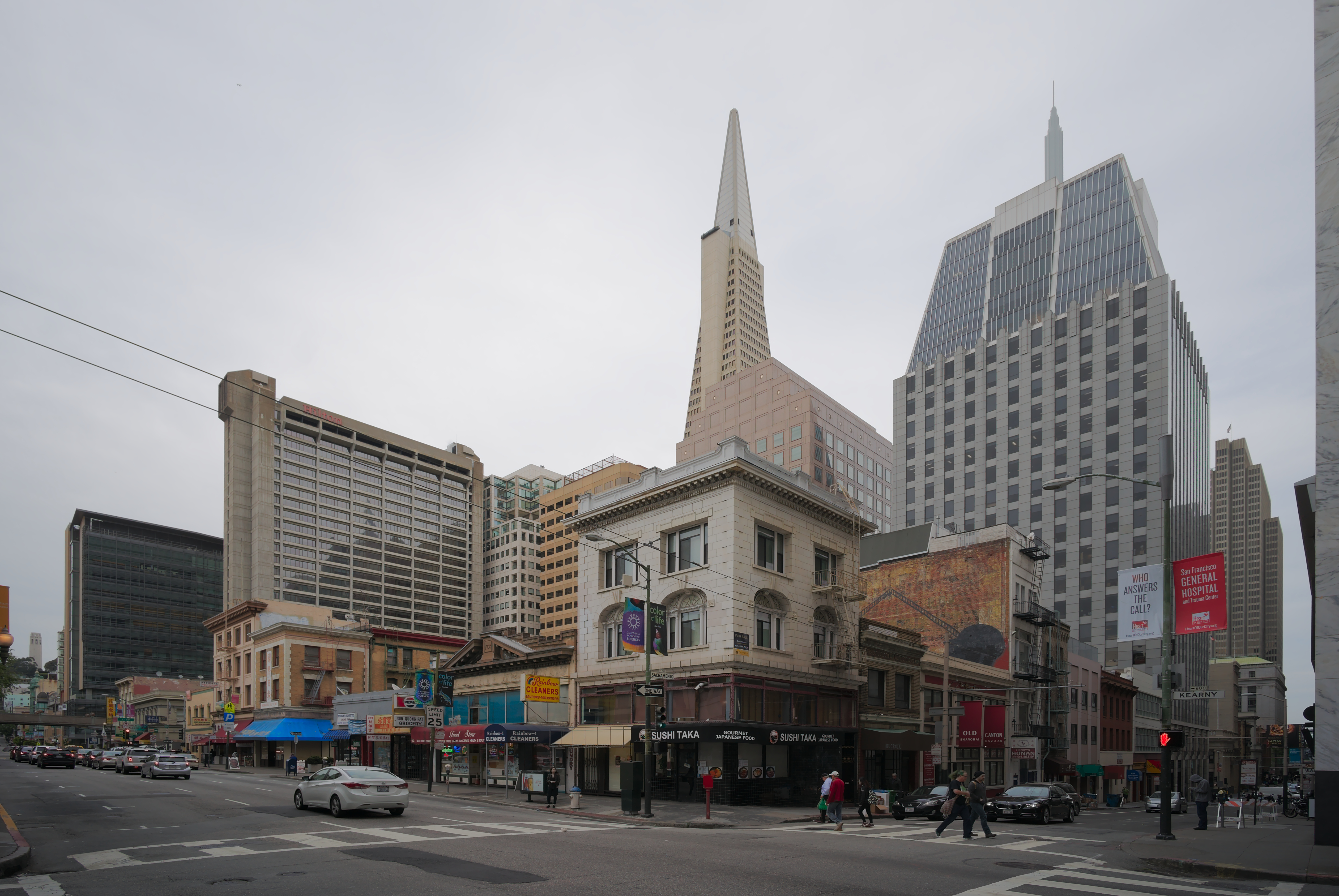 Intersection of Sacramento Street at Kearny Street, San Francisco.